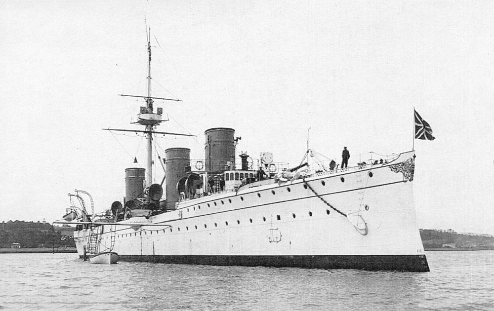 Imperial Russian cruiser Novik.